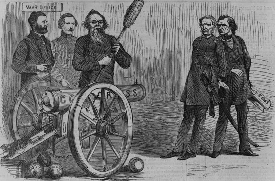 "The situation". Print shows Ulysses Grant and Edwin Stanton near cannon labeled "Congress" aimed at Lorenzo Thomas and President Johnson.